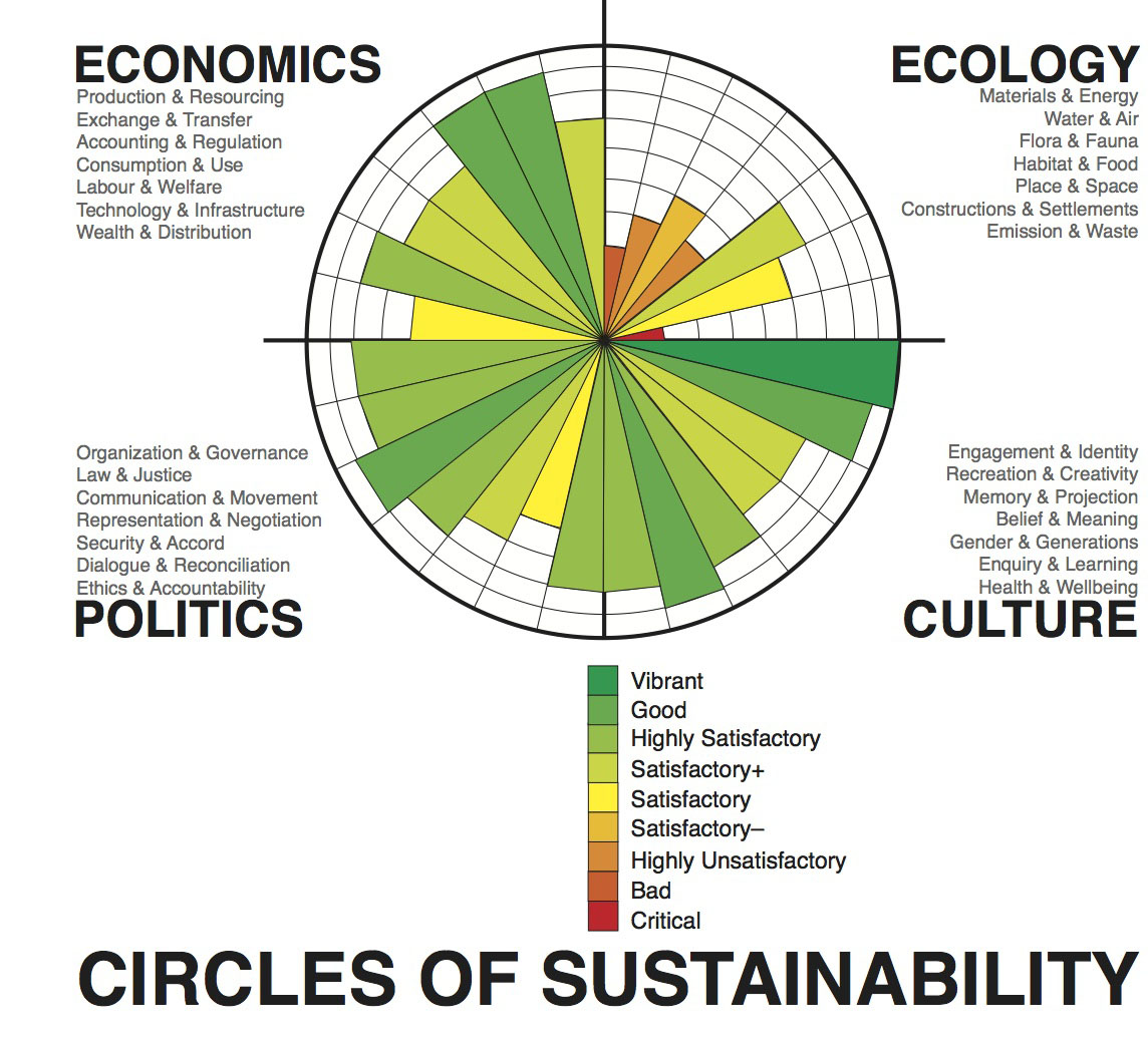 This image shows the sustainability of the metropolis of Melbourne across the four domains of sustainability - economics, ecology, politics and culture - as developed by the UN Global Compact, Cities Programme. sustainability sustainable development circles of sustainability The image was developed by Paul James using Adobe Illustrator, based on the Cities Programme template.